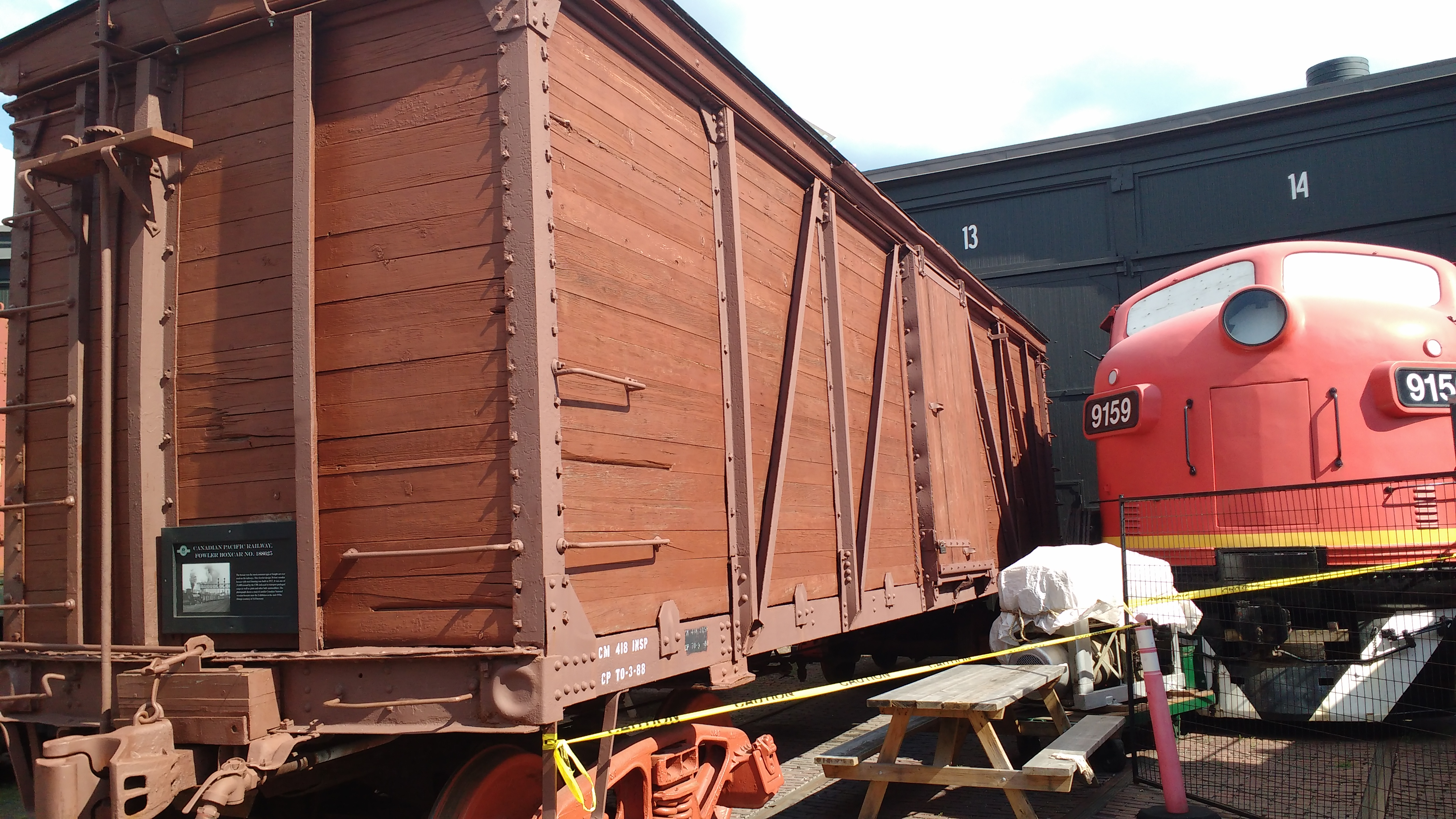 Fowler boxcar